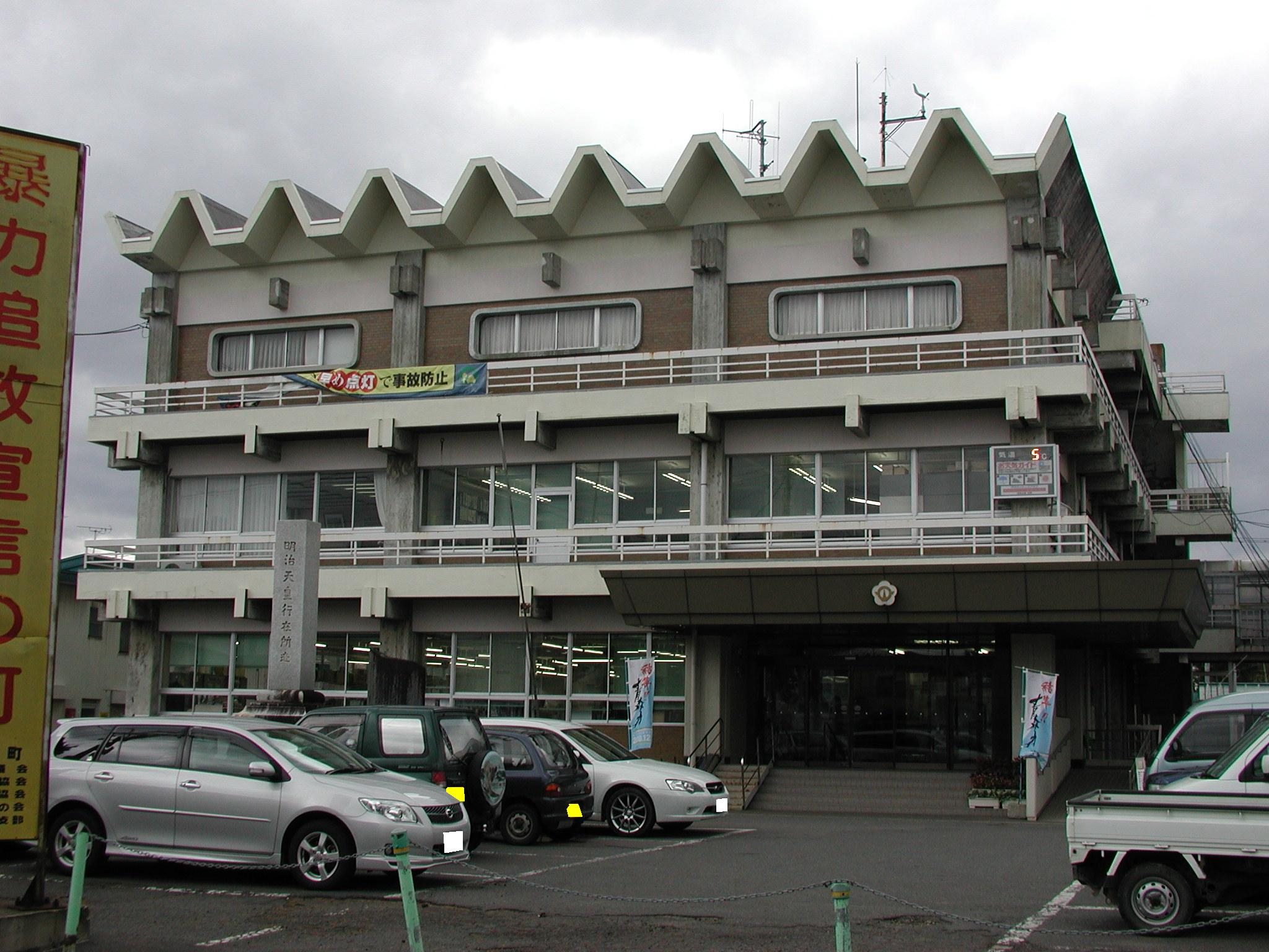 Hiranai Town Office